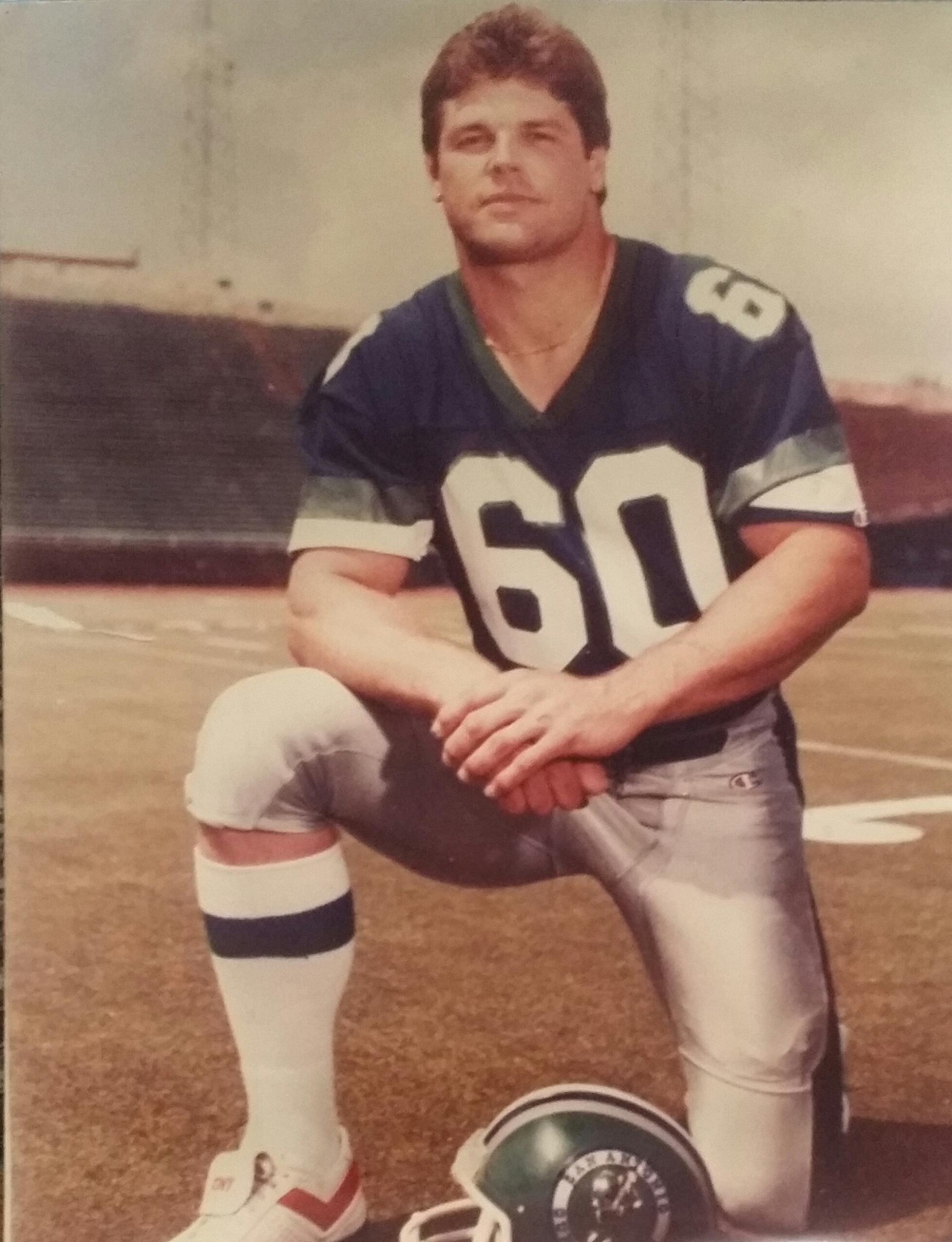 Bill Winters while playing for the San Antonio Gunslingers